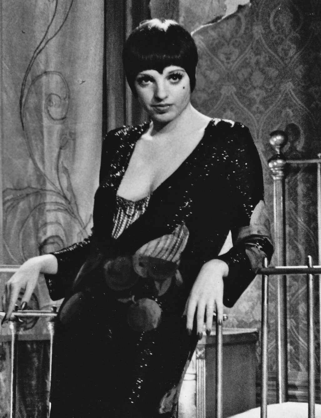 Photo of Liza Minnelli as Sally Bowles from the film Cabaret.